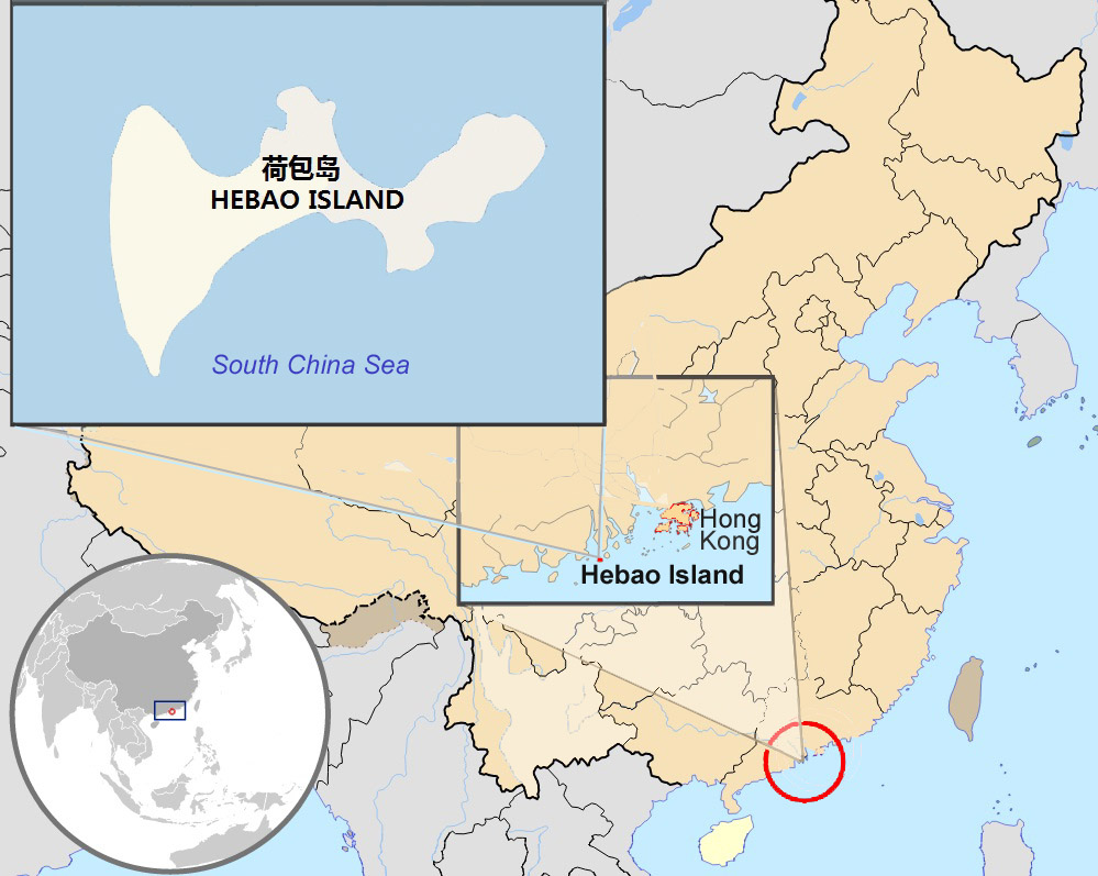 Map showing Zhuhai's Hebao Island's location in Asia, off China's south coast, and in relation to Hong Kong